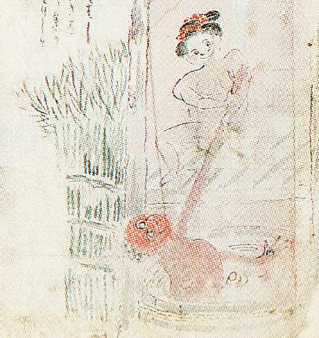 Mamedanuki (豆狸) from the "Tosa bakemono ehon" (土佐化物絵本, Japanese picture)